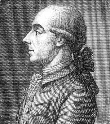 Johann(III) Bernoulli Born: 4 Nov 1744 in Basel, Switzerland Died: 13 July 1807 in Berlin, Germany